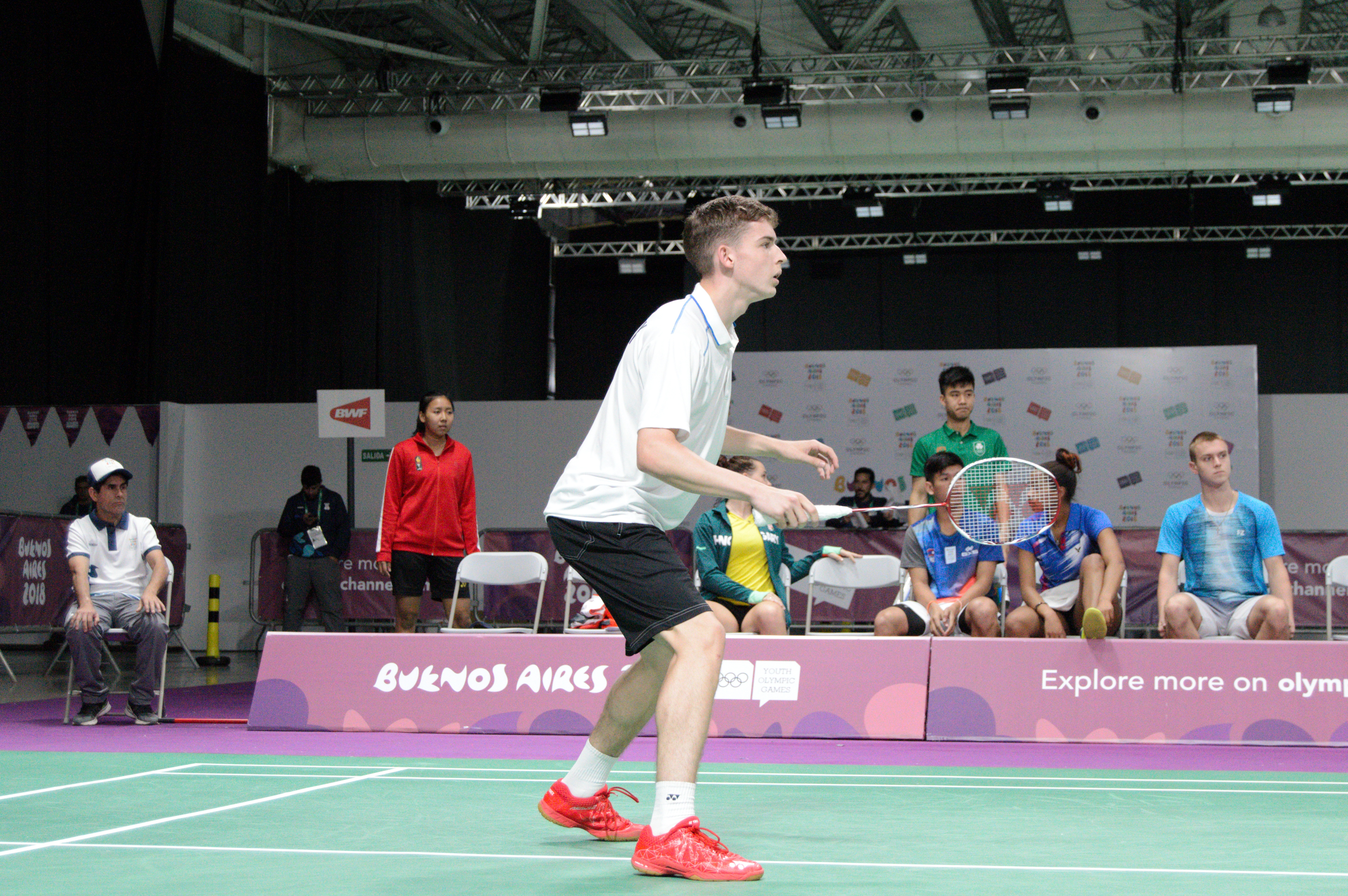 Bronze medal match for the badminton mixed relay team tournament at the 2018 Summer Youth Olympics. Match 1.